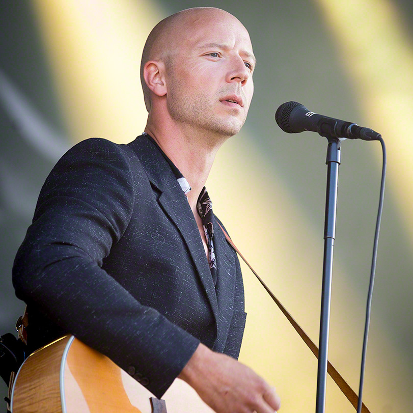 Sivert Høyem at the main stage during Stavernfestivalen in Stavern on 09. July 2016. Lineup:Sivert Høyem (guitar / vocal)Christer Knutsen (guitar)Cato Salsa (guitar)Øystein Frantzvåg (bass)Børge Fjordheim (drums)